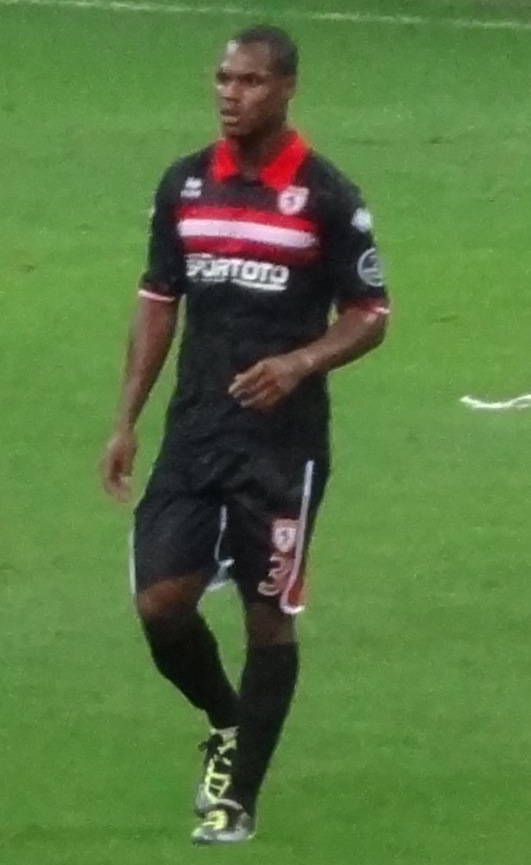 @GS Match